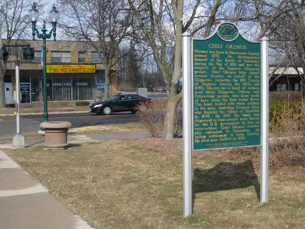 Chief Okemos sign in downtown Okemos, Michigan, along Okemos Road near Hamilton Road intersection.